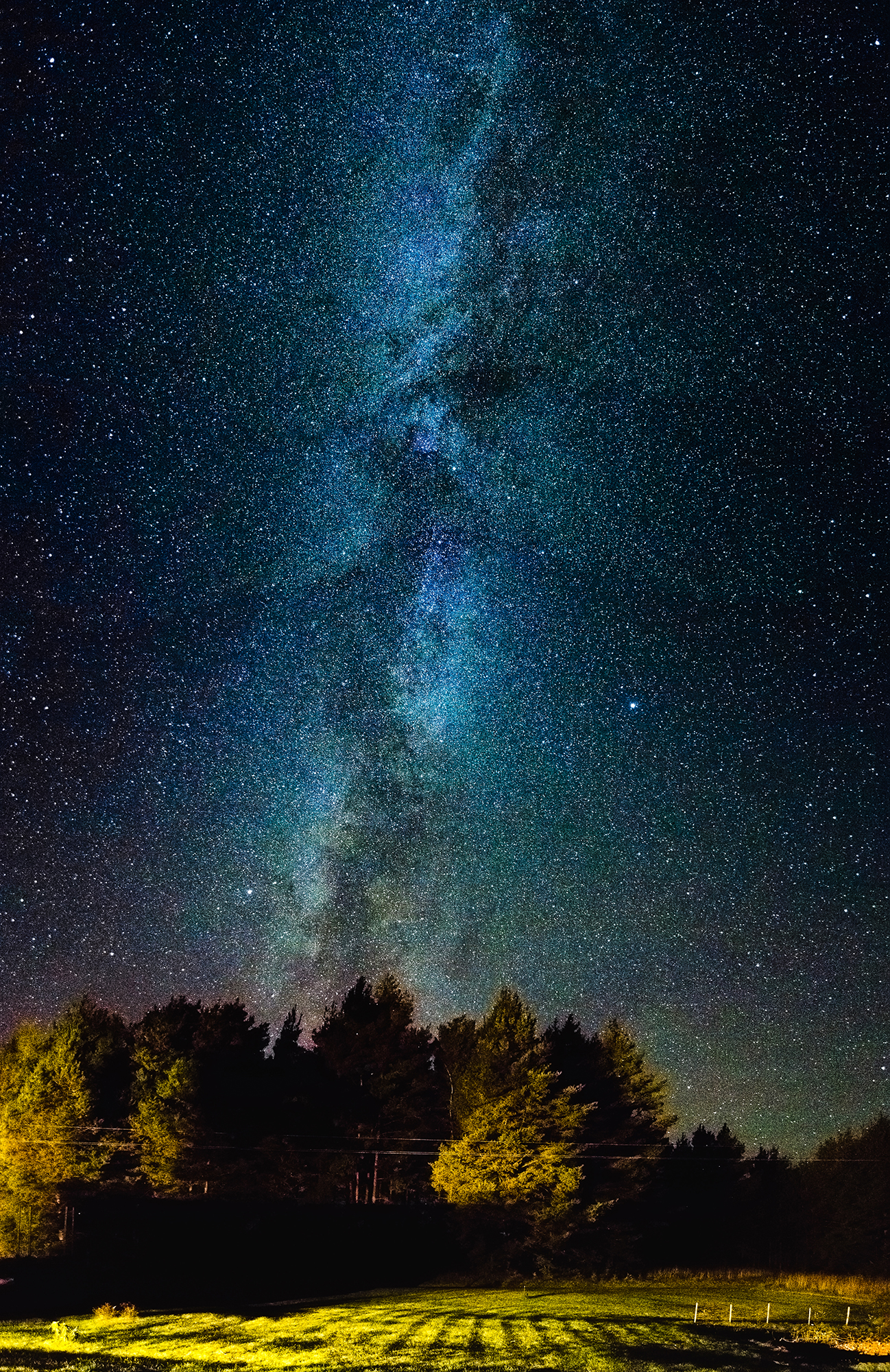 Milky Way